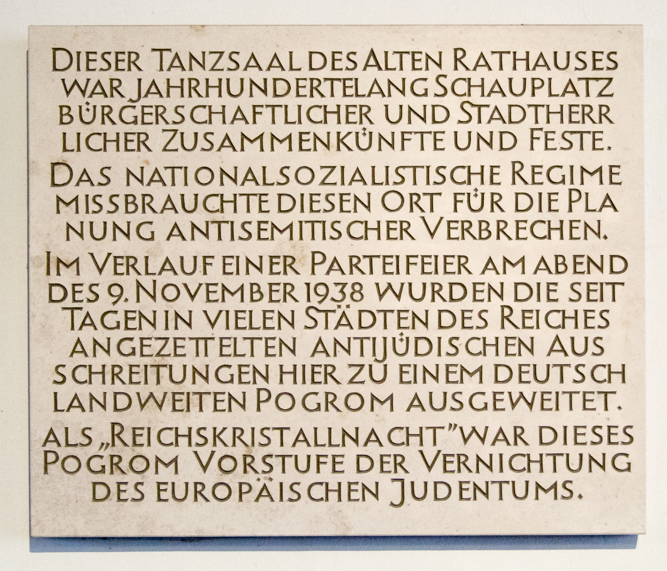 Plaque with reference to the planning of Kristallnacht at the Entrance of the former dance hall of the Altes Rathaus in Munich.